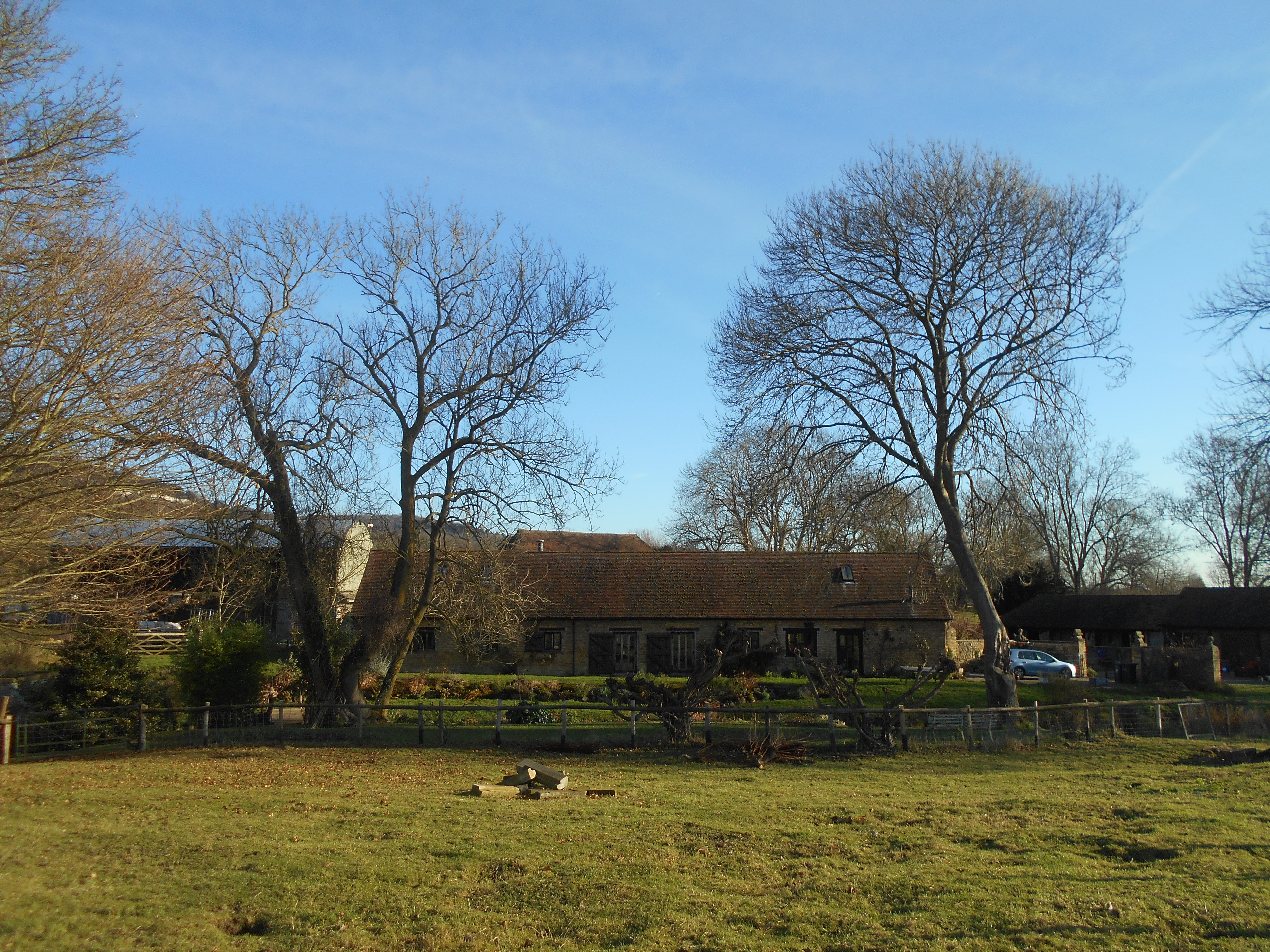 Great Tottington Farm, with a moat from a medieval moated manor. Aylesford, Kent, England.